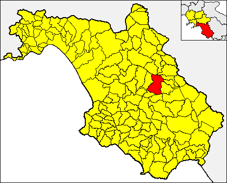 Locator map of the municipality of Corleto Monforte (red) within the Province of Salerno